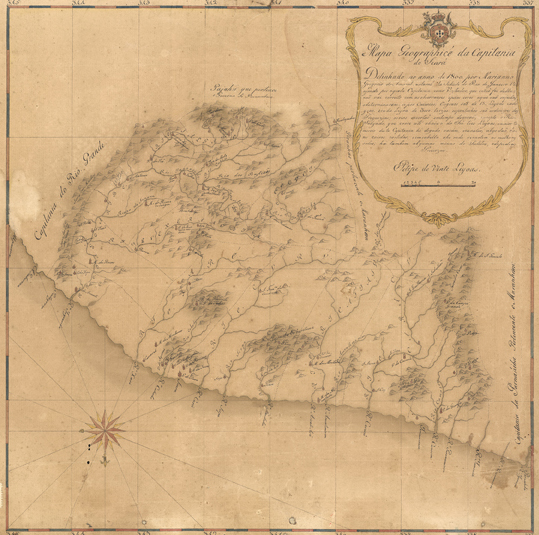 Ceará -1800